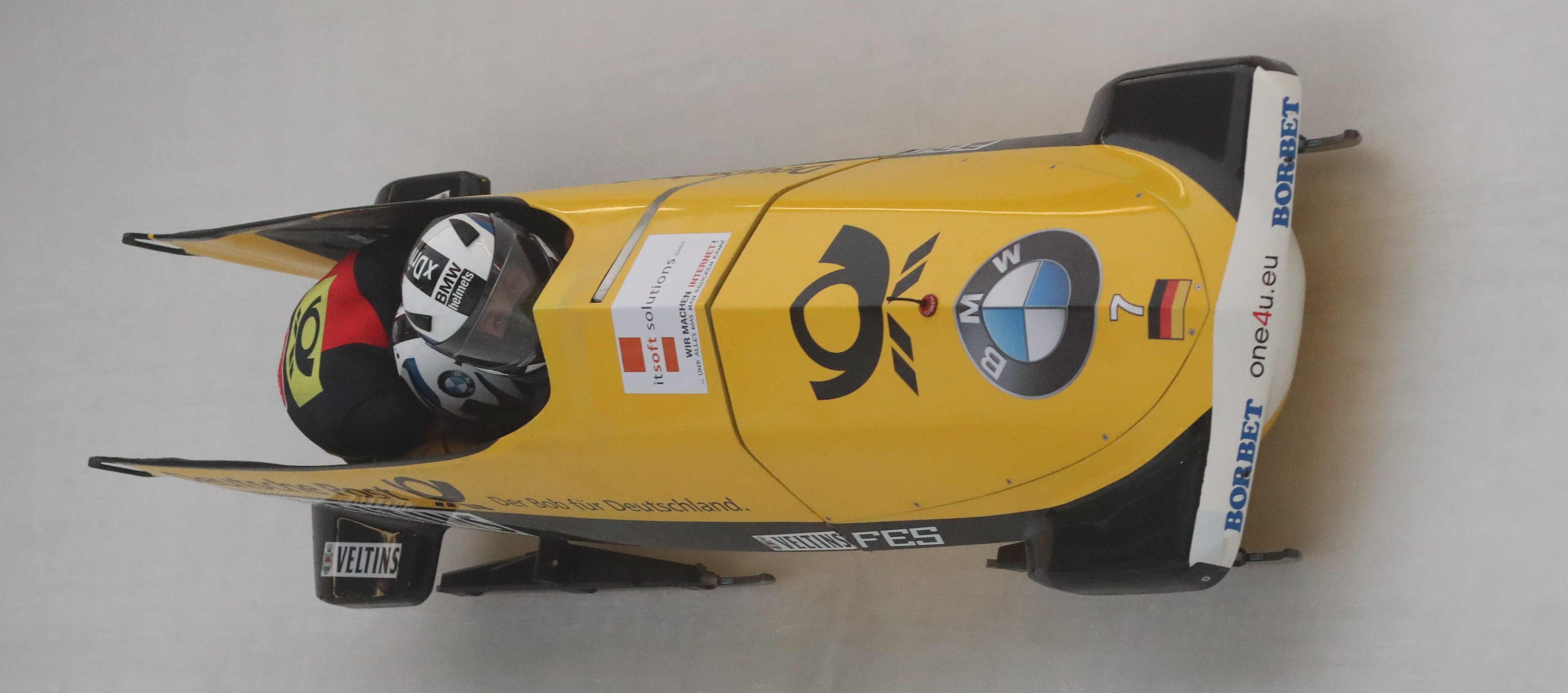 2-man Bobsleigh Women's World Cup race at the 2018/19 Bobsleigh World Cup in Altenberg